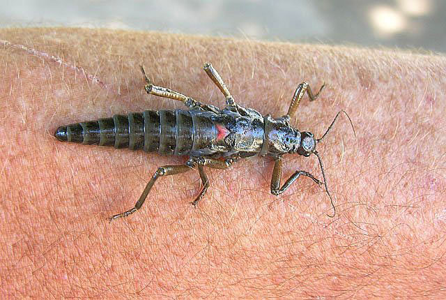 Another type of smelly Chinchemolle, this one from the Belgrano Range of Argentina's La Rioja Province. In context at